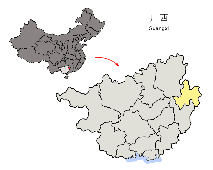 Location of Hezhou Prefecture (yellow) within Guangxi Autonomous Region of China Map drawn in november 2007 using various sources, mainly : Guangxi Autonomous Region administrative regions GIS data: 1:1M, County level, 1990 Guangxi Counties map from